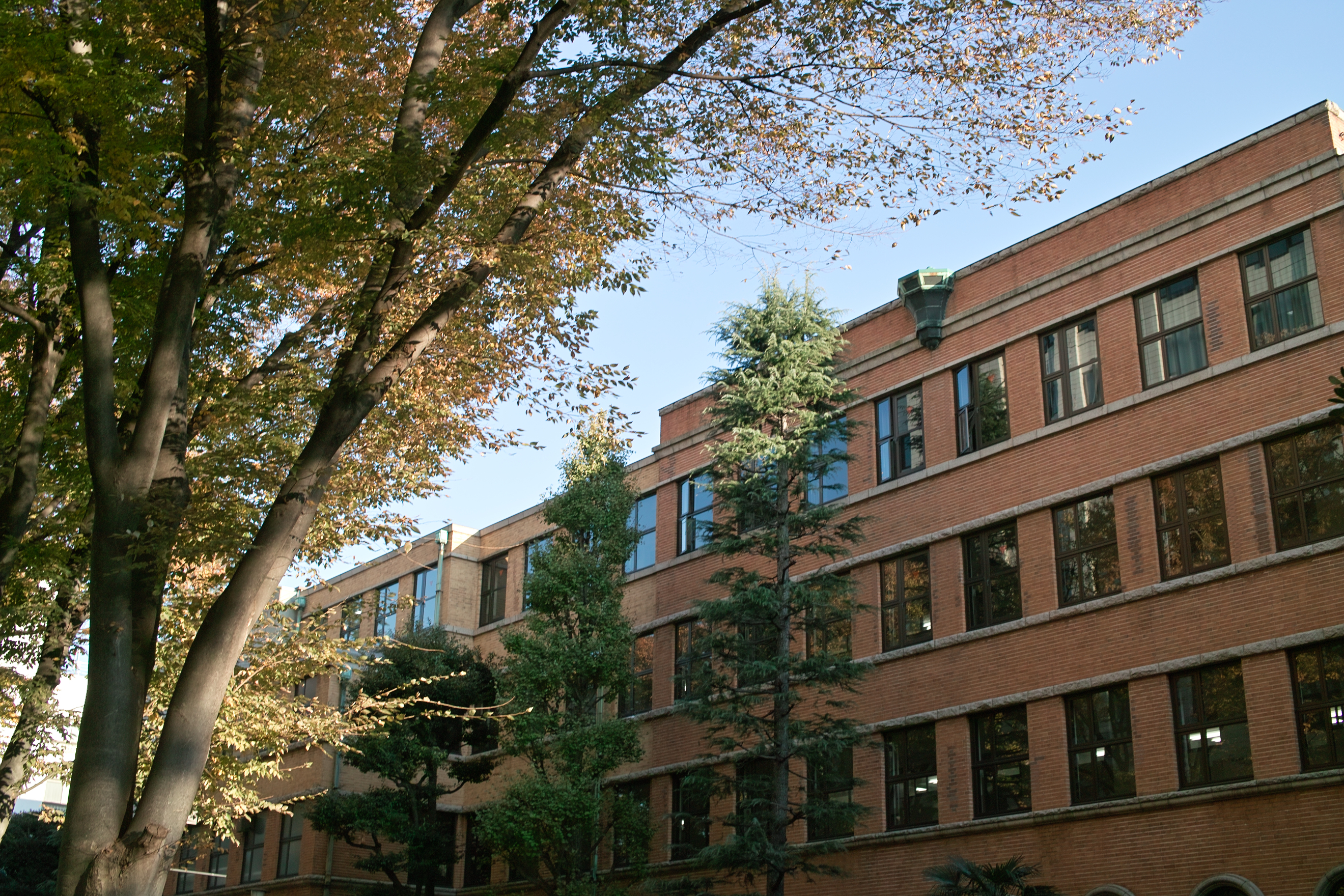 Sophia University Yotsuya Campus